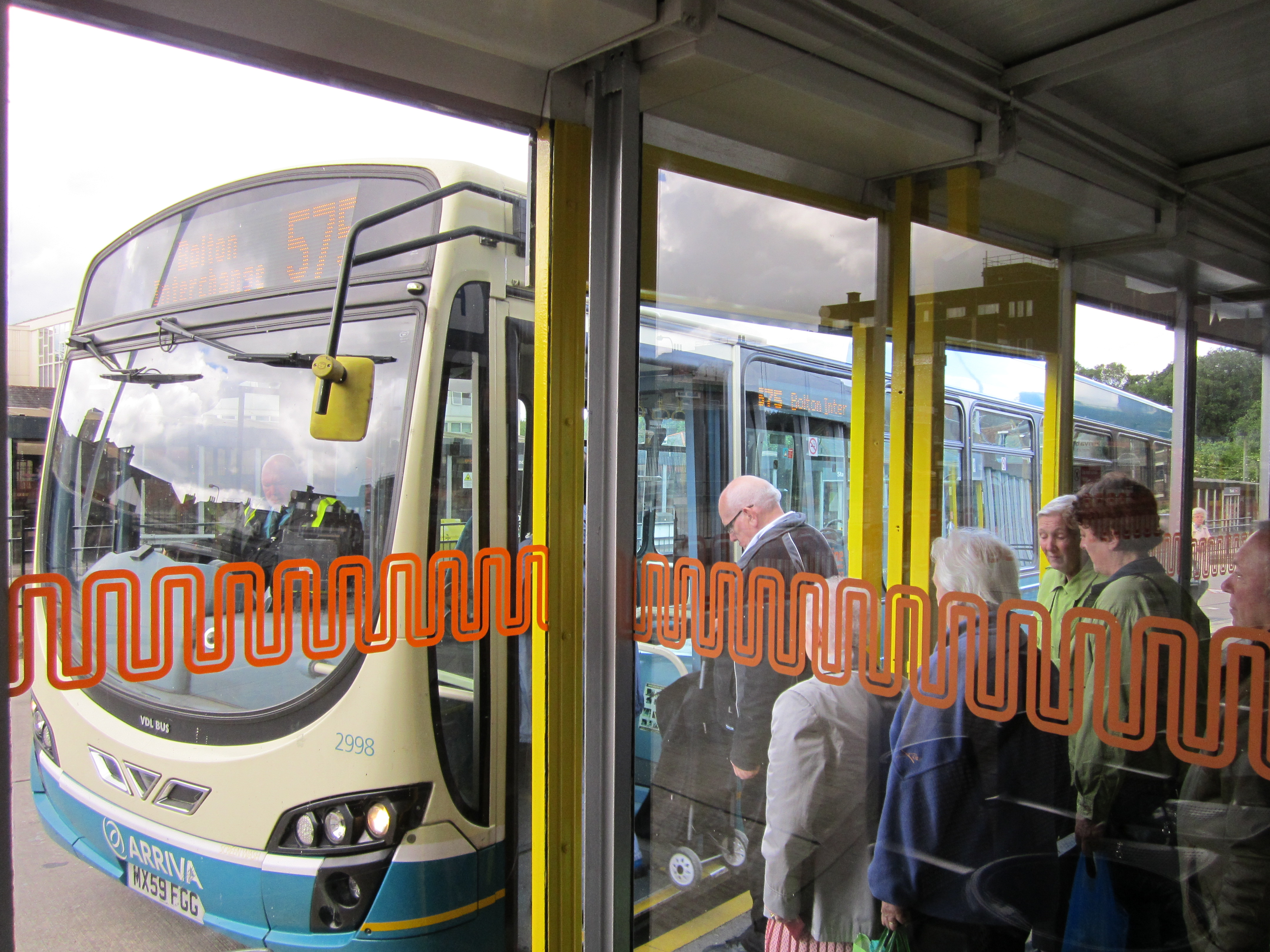 Photo taken at Wigan bus station, Greater Manchester, England.